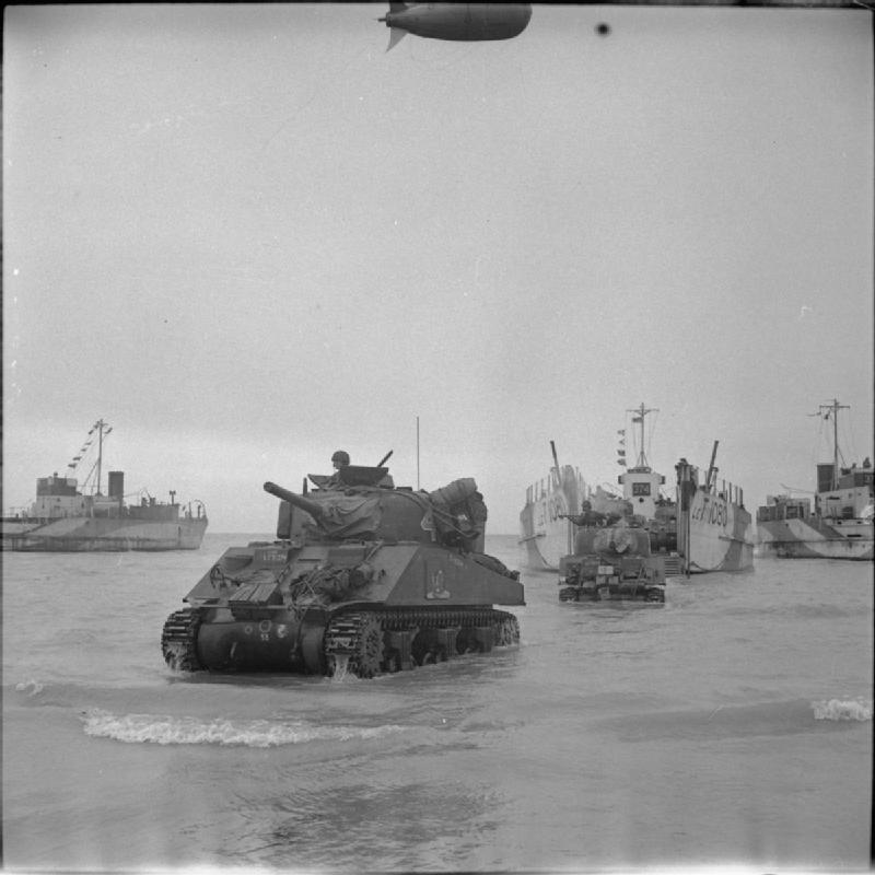 The British Army in the United Kingdom 1939-45 Sherman tanks driving ashore from landing craft during Exercise 'Fabius', 6 May 1944.